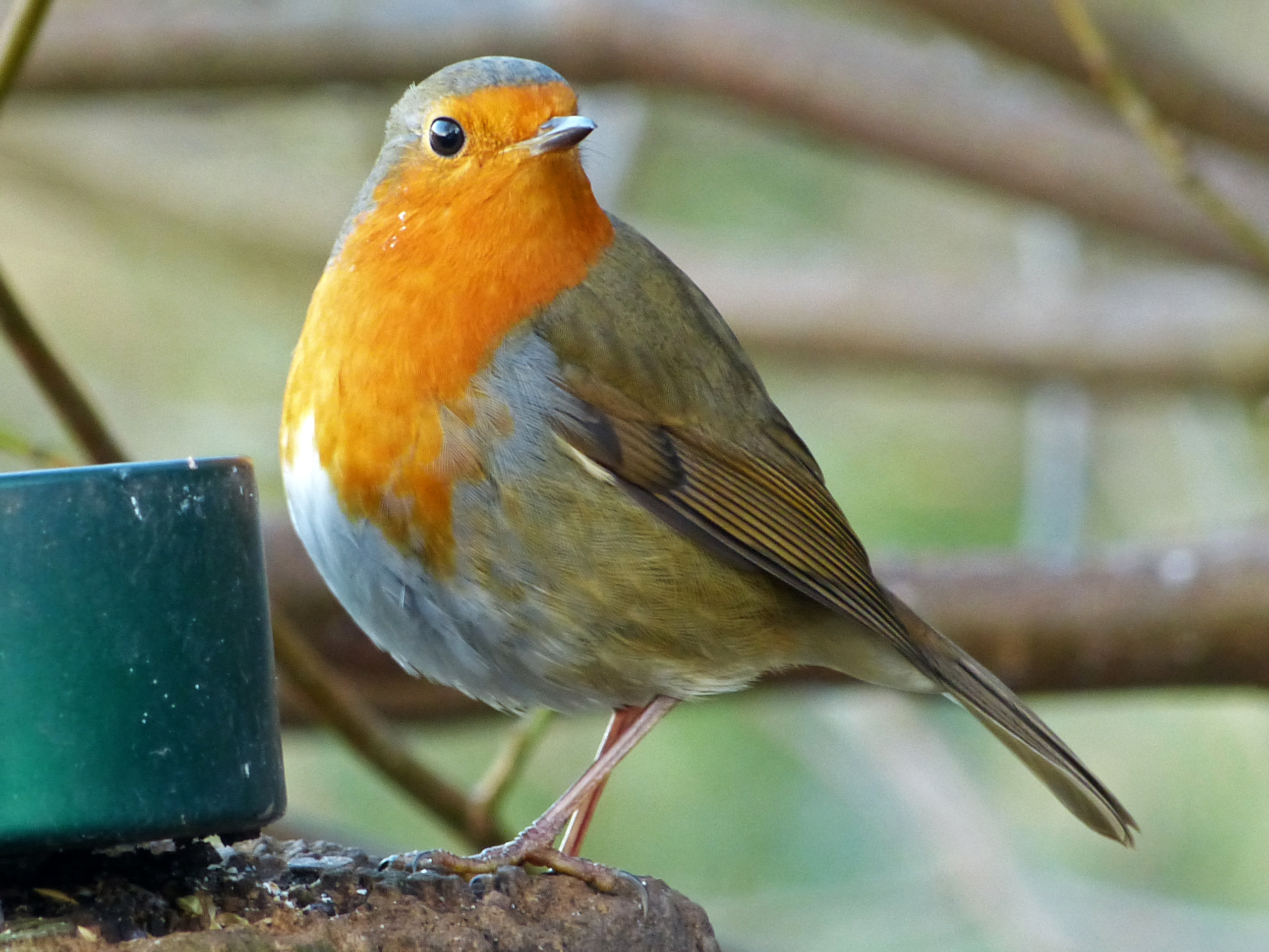 Latin name Erithacus rubecula Family Chats and thrushes (Turdidae) Overview The UK's favourite bird - with its bright red breast it is familar throughout... Where to see them Across the UK in woodland, hedgerows, parks and gardens. When to see them All year round. What they eat Worms, seeds, fruits and insects.